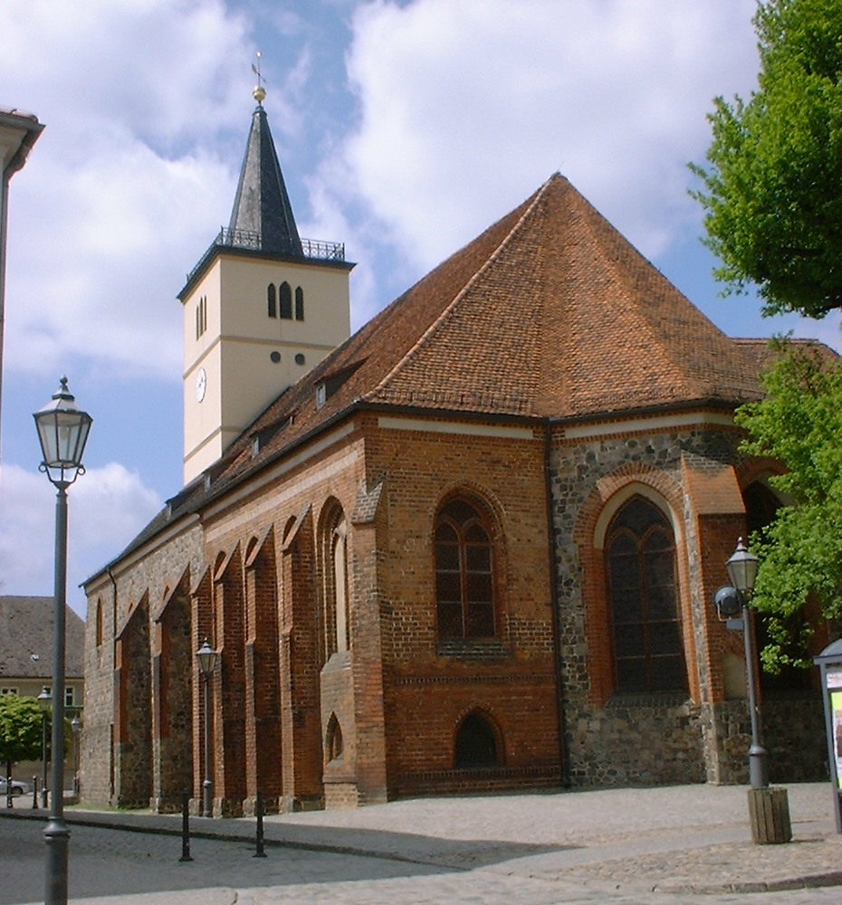 St. Mary's Church in Beelitz in Brandenburg, Germany